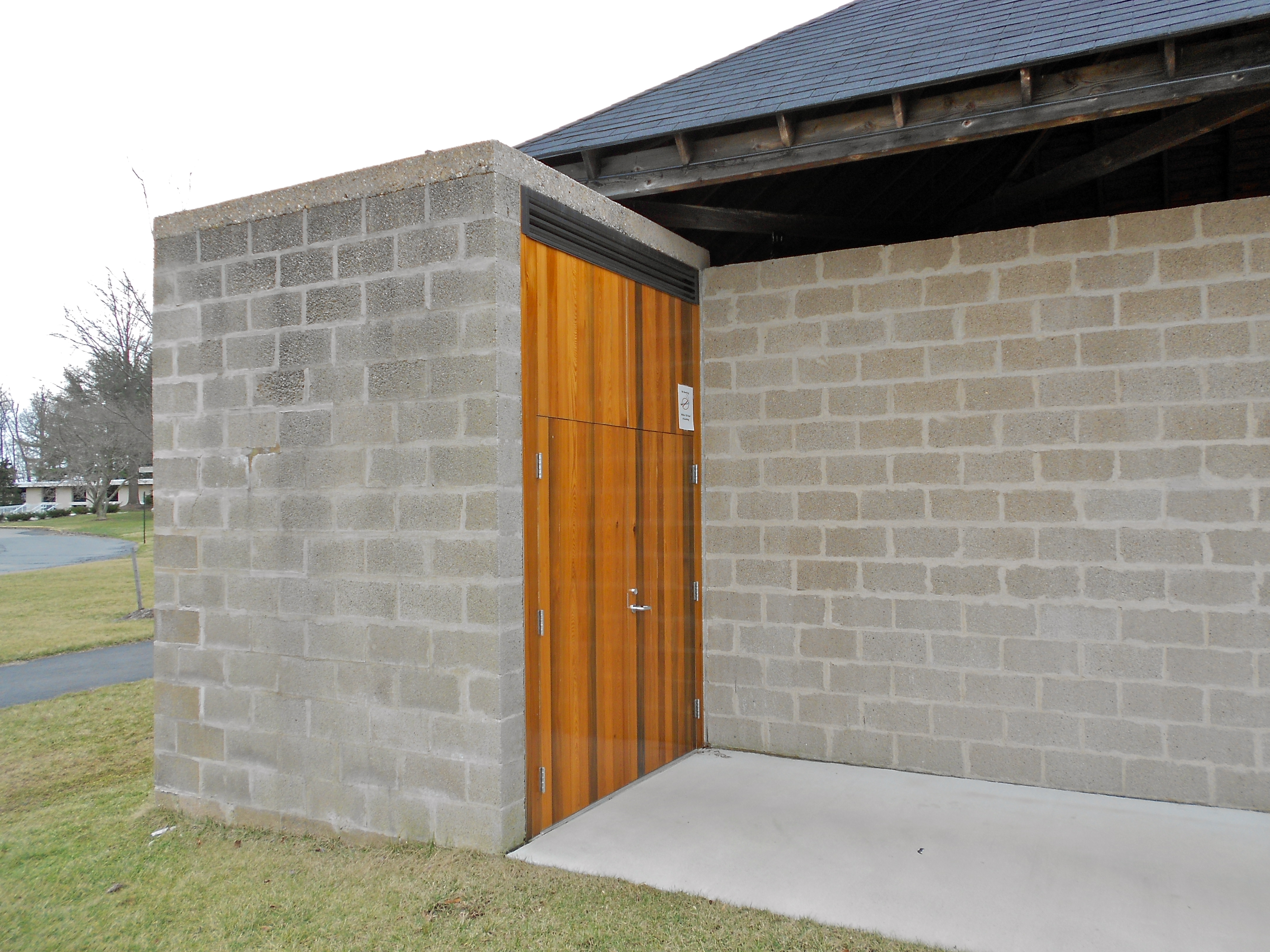 Trenton Jewish Community Center Bath House and Day Camp on the NRHP since February 23, 1984. Located at 999 Lower Ferry Rd., Ewing Township, Mercer County, New Jersey. Built 1951 as a poolhouse (for kids etc.) going to the swimming pool. Designed by Louis Kahn. This corner puzzles me and I was thinking it was not part of the original design when I took the photo, but now it looks just wonderful (who knows)